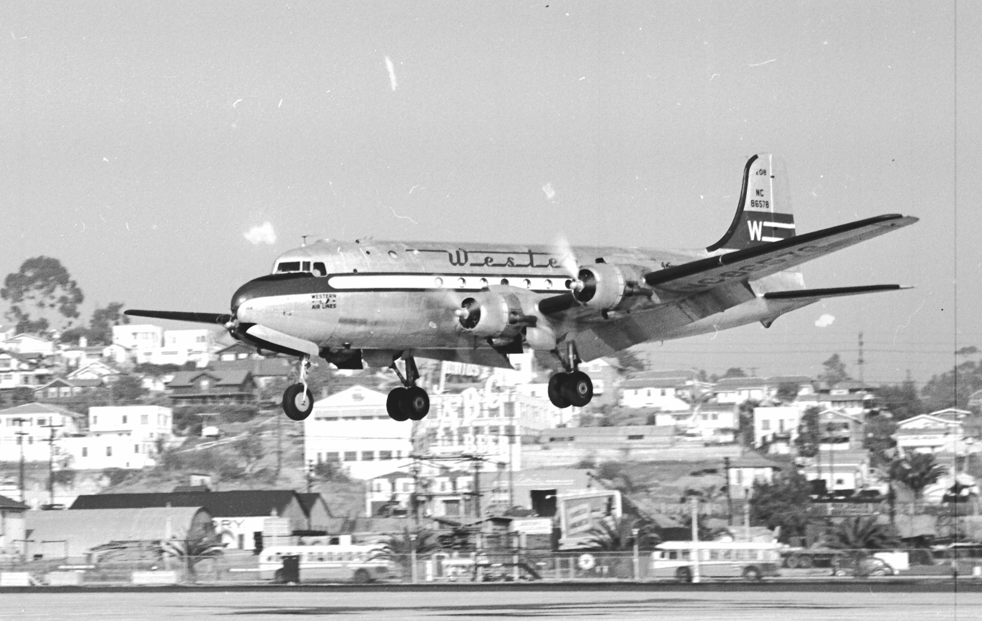 Scan of a small section of an old negative. San Diego 10-25-48.